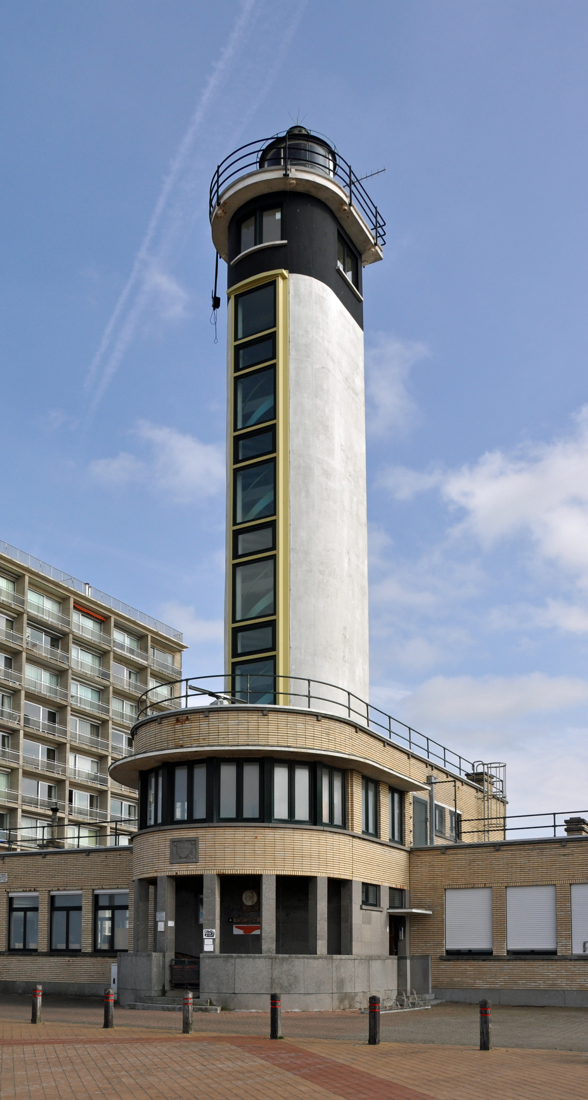 Blankenberge (Belgium): the lighthouse